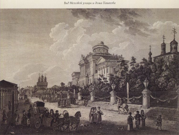 Mokhovaya street and Pashkov house in the Moscow Моховая улица и Пашков дом в Москве